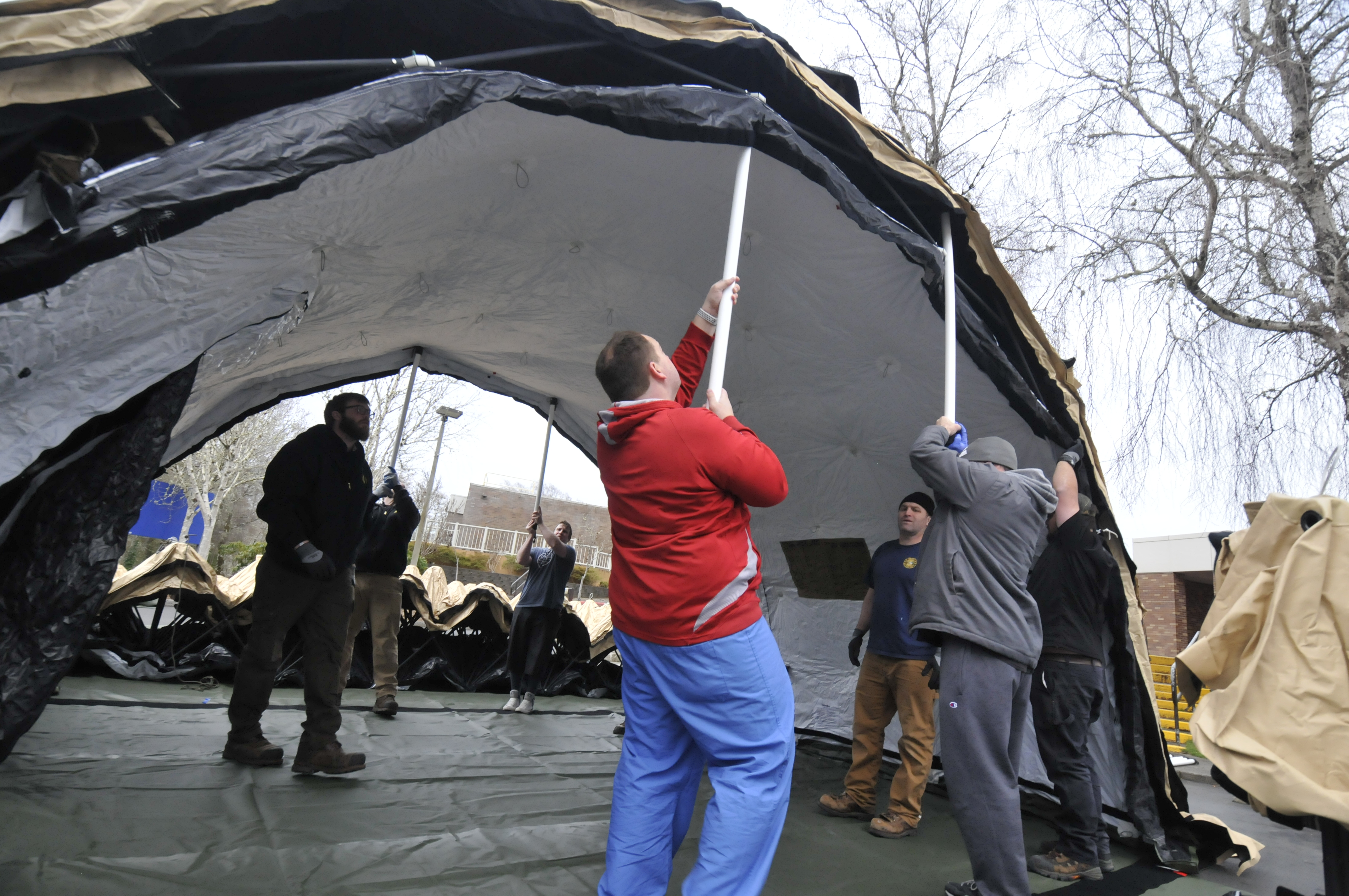 Seaside, Ore. - Workers from the Oregon Military Department, state maintenance crew out of Camp Rilea, and Providence Seaside hospital maintenance crew, help erect a military tents at the emergency entrance parking lot at Providence Seaside Hospital, March 18, 2020. The tents will be used for testing and triaging members of the local community who may have fallen ill from the COVID-19 virus. (Oregon National Guard photo by Aaron Perkins, Oregon National Guard Public Affairs)